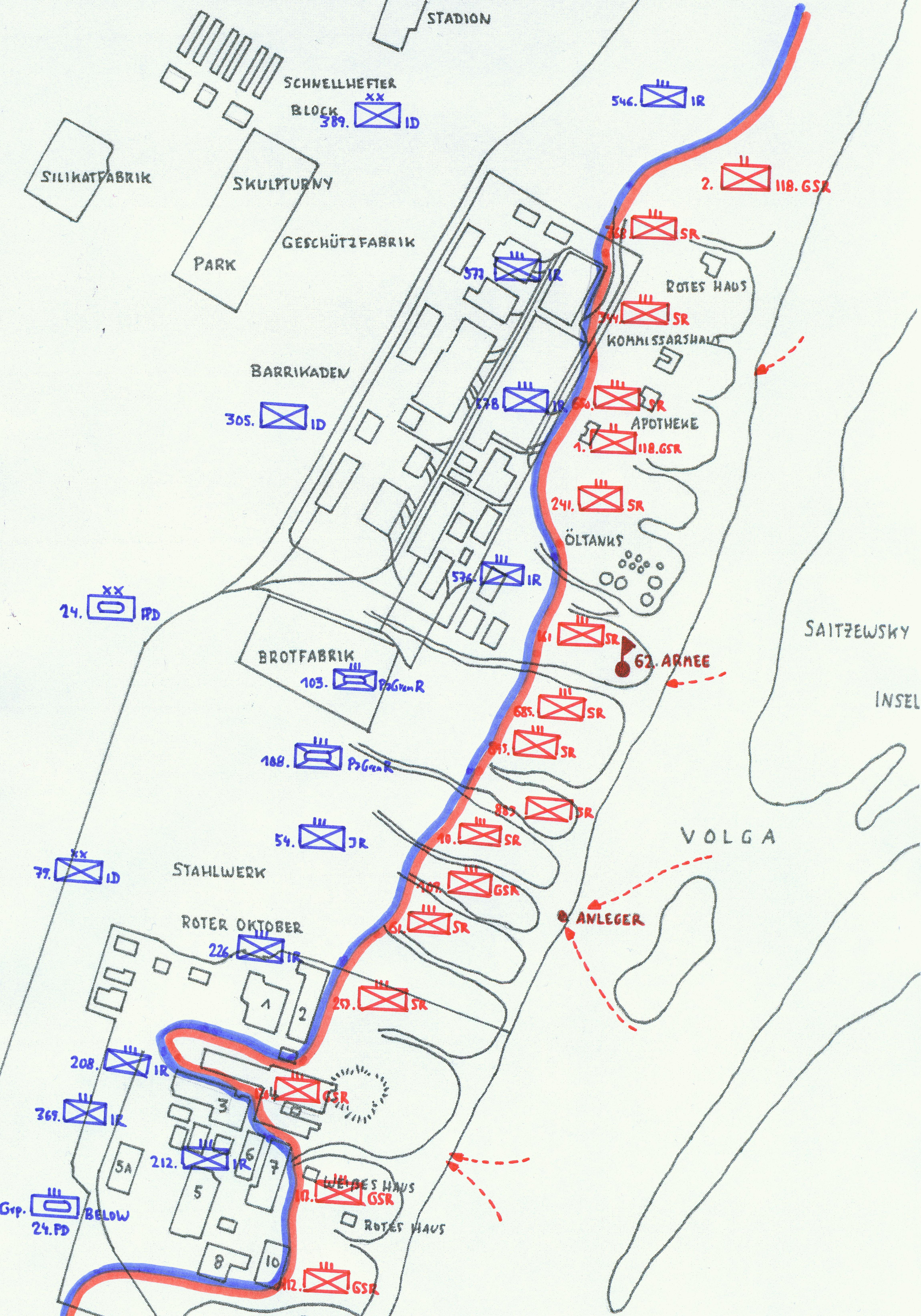 draw outline according to Glantz